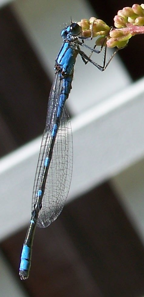 Tule Bluet. Male.